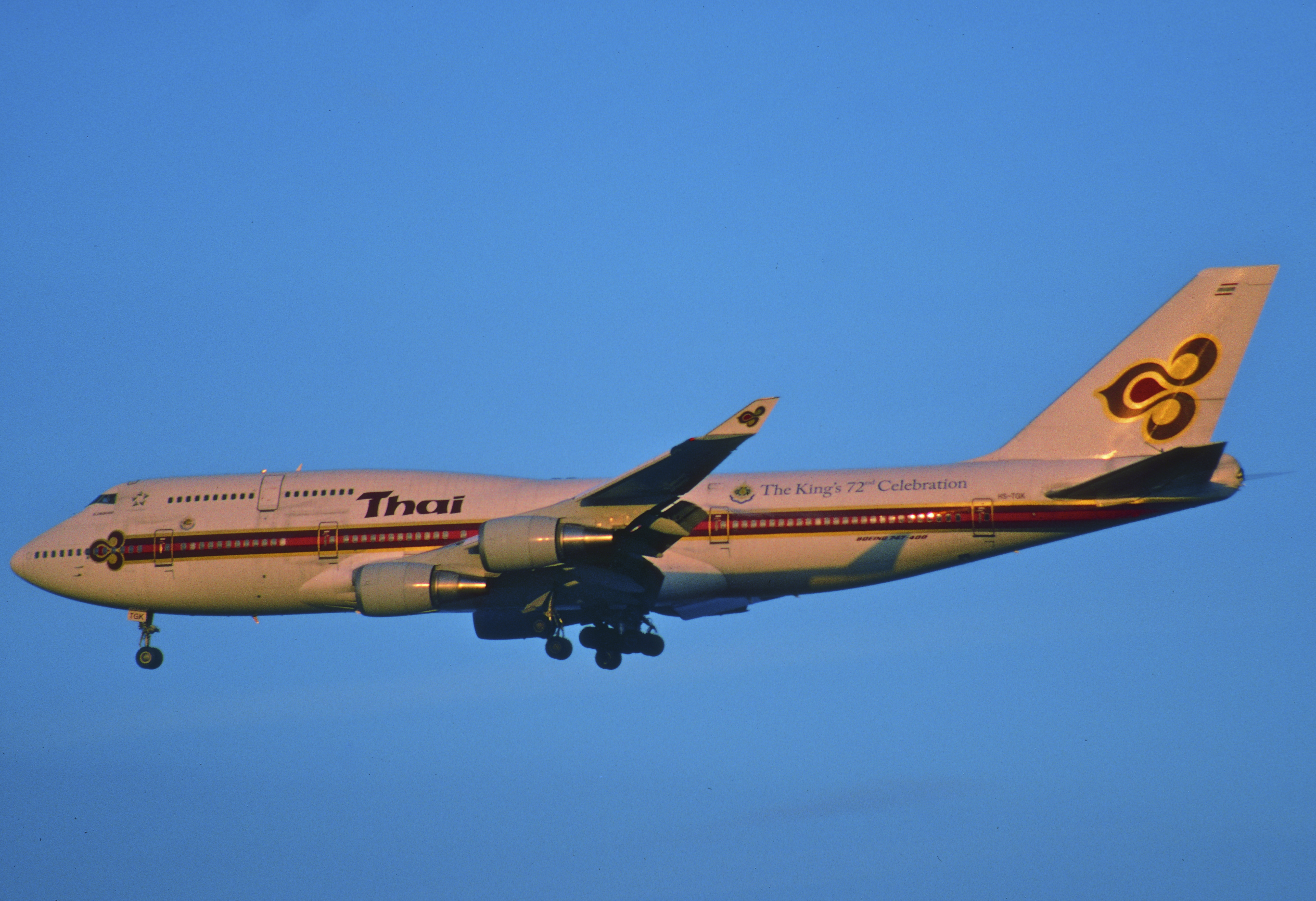 This Boeing 747-4D7, named 'Alongkorn', took its first flight on January 11, 1991 and was delivered to TG on January 31, 1991...(c/n 24993/ 833)